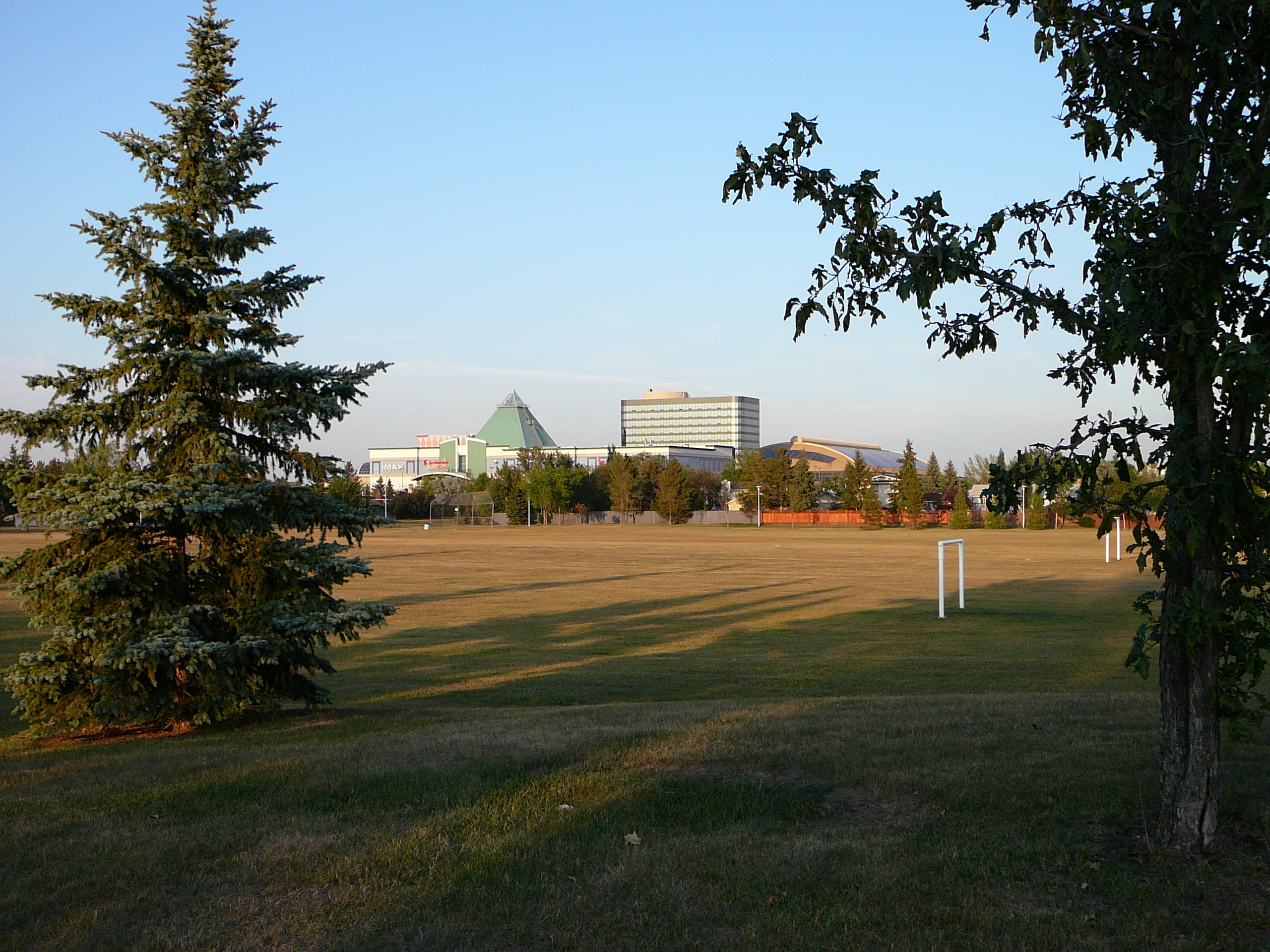 West Edmonton Mall as seen from the neighbourhood of Aldergrove.